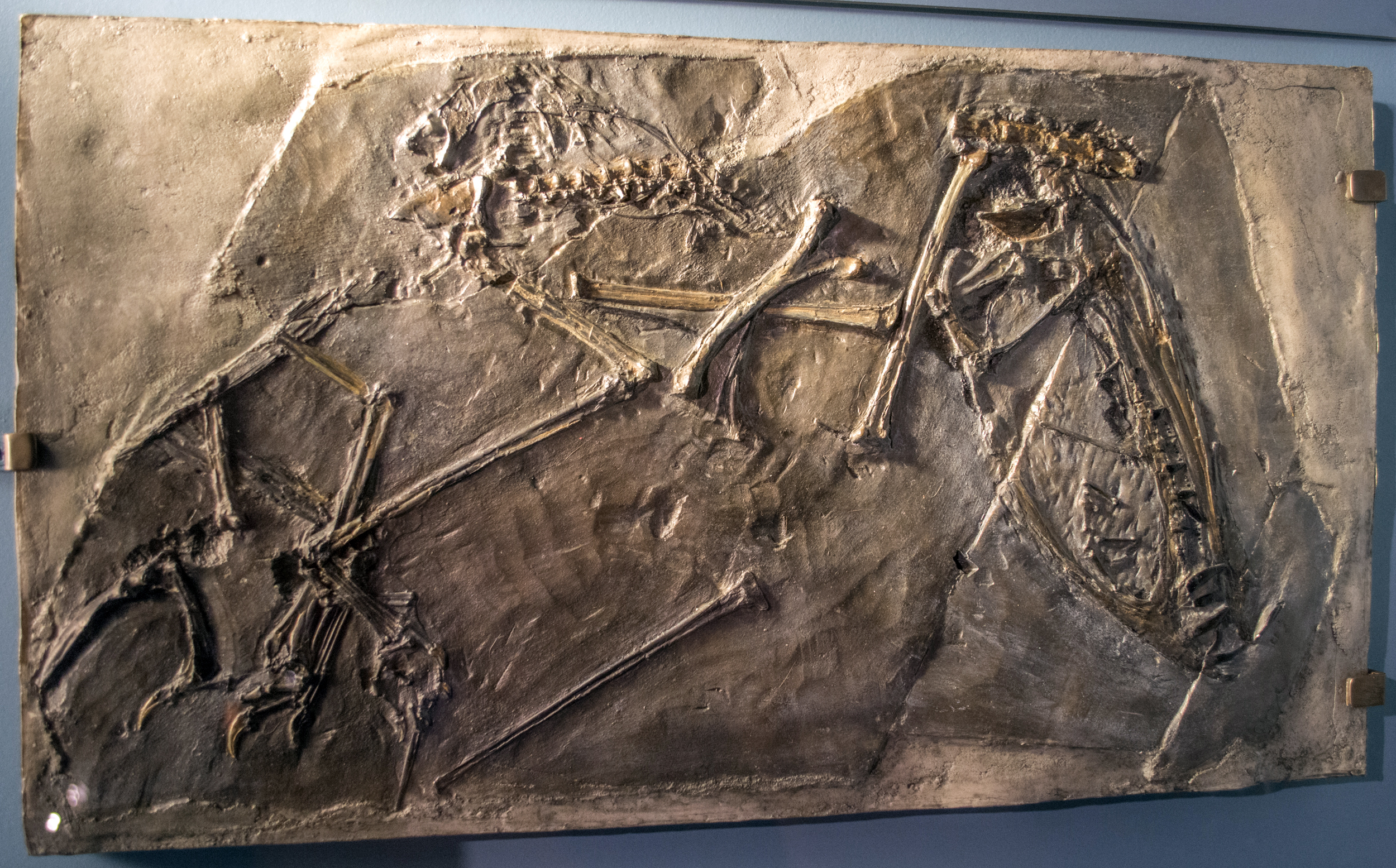 Cast of a fossil Dimorphodon macronyx. On display as part of the exhibit "Pterosaurs: Flight in the Age of Dinosaurs" at the Cleveland Natural History Museum in Cleveland, Ohio, in the United States. This fossil was found in the Blue Lias Formation of Dorset, United Kingdom. It dates to about 200 million years ago, and is held by the Natural History Museum of London.